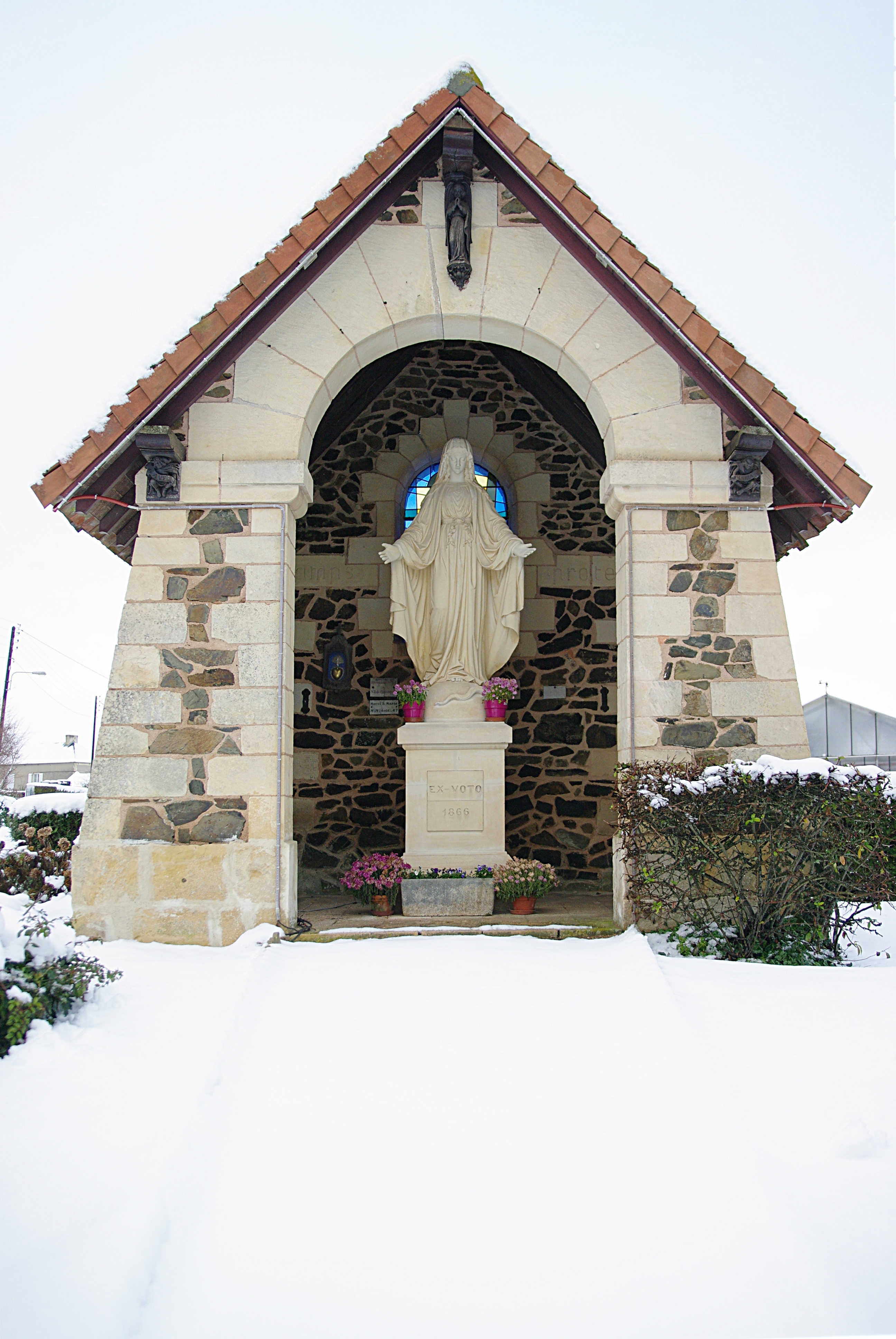 The oratory of Clinchamps-sur-Orne